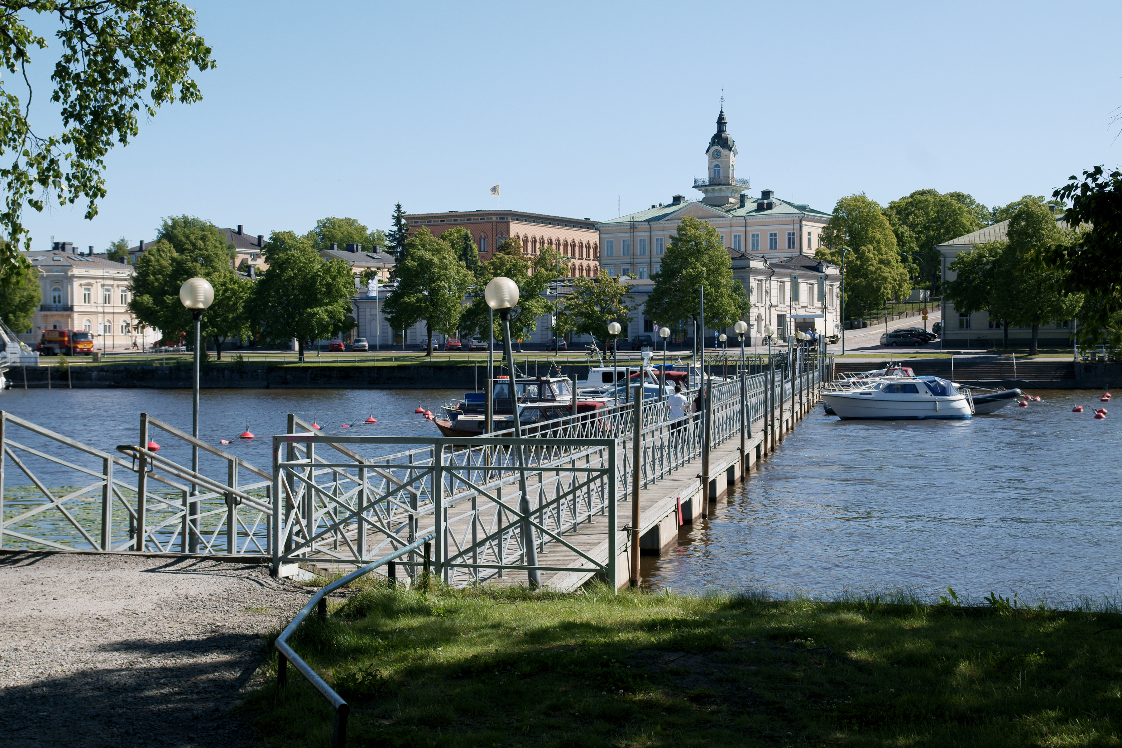 Taavisilta bridge, Pori, Finland.